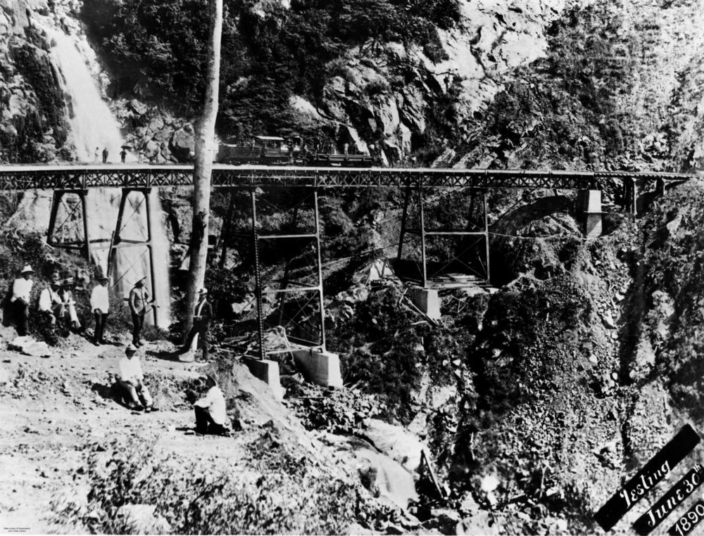 Testing the Stony Creek Bridge, Cairns District, 1890. The locomotive used to test the bridge was named 'Pioneer' and was one of two construction engines ordered by J. & A. Overend from the Baldwin Locomotive Works of Philadelphia, the two being shipped from the USA, July 1879, to Brisbane. 'Pioneer' was used on Overend's contract for construction of Section 1 of the Bundaberg Railway. In November 1881 it is recorded as being used by contractor Bashford on construction of the Sandgate line, then back to Bundaberg in 1883. In 1885 it was working on the Western Railway construction between Roma and Mitchell, where this photo was taken [this statement is in conflict with the picture's subject matter -- and the file's title -- which depicts the Stony Creek Falls bridge on the Cairns to Kuranda railway]. John Robb used it for his contract on the Cairns Range. It was then used by contractors McKenzie & Sutherland for construction of the third section of the Cairns Railway after which it was sold to the Chillagoe Mines and Railway Company and used on the construction of the Chillagoe Railway from Mareeba. It remained a unit of the Chillagoe Company's fleet of locomotives until 1919 when it was taken over by the Queensland Railways who numbered it 52 and classed it B14, being used for shunting at Townsville. It was withdrawn from service in August 1927.